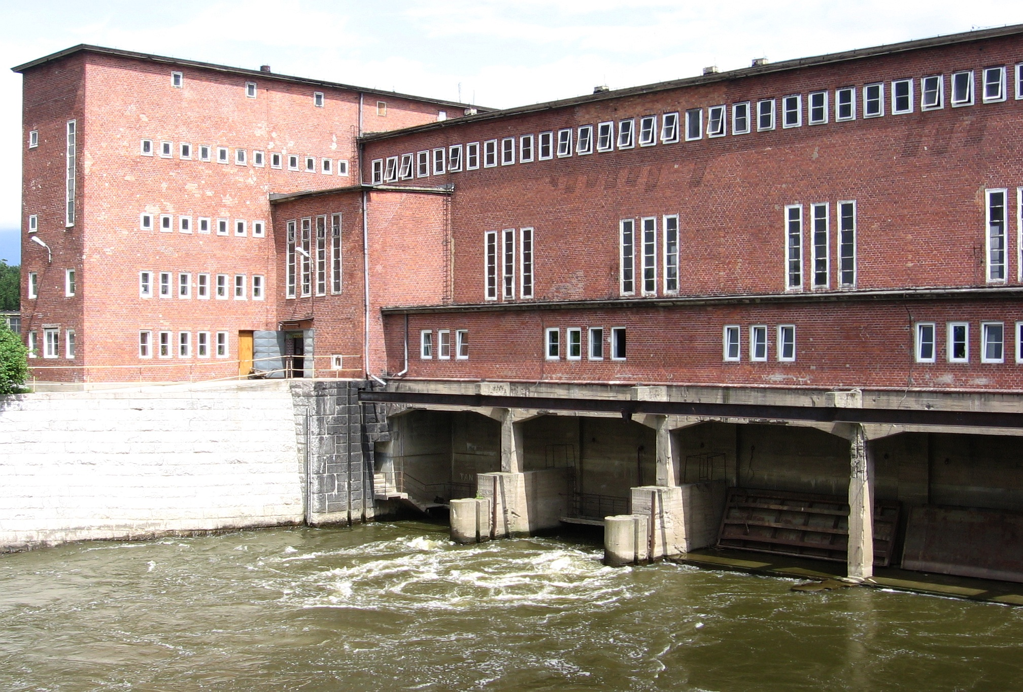 Southern hydroelectric plant on Odra River in Wrocław, Poland